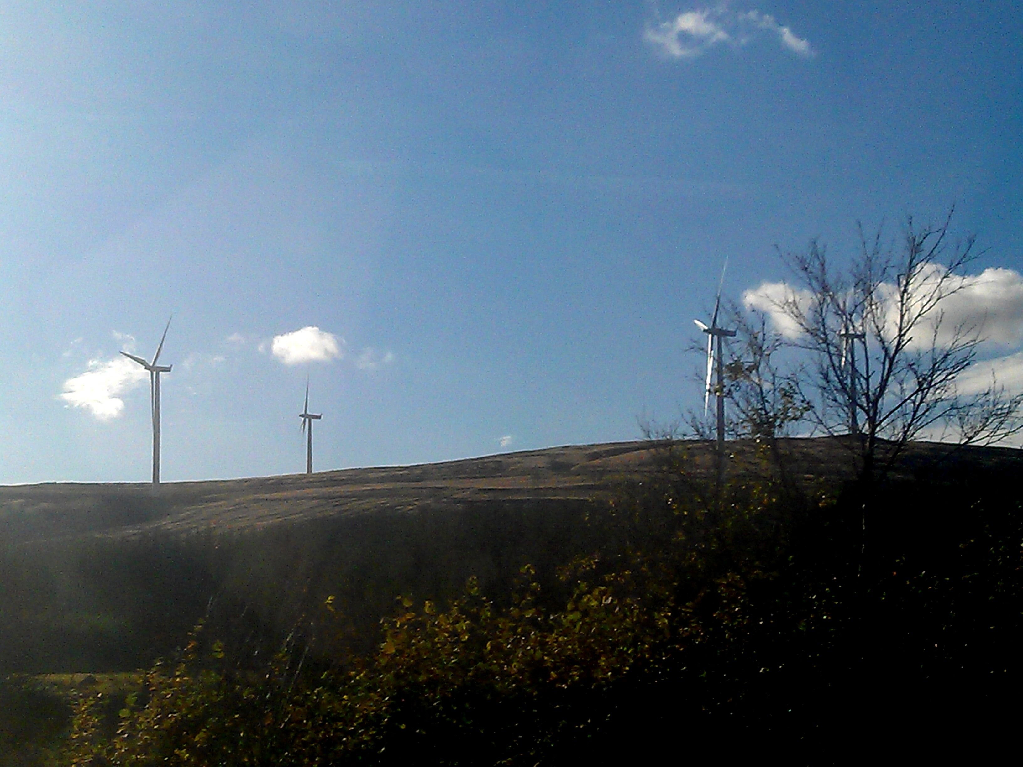 Clyde Wind Farm near Beattock, Taken from the A74(M)